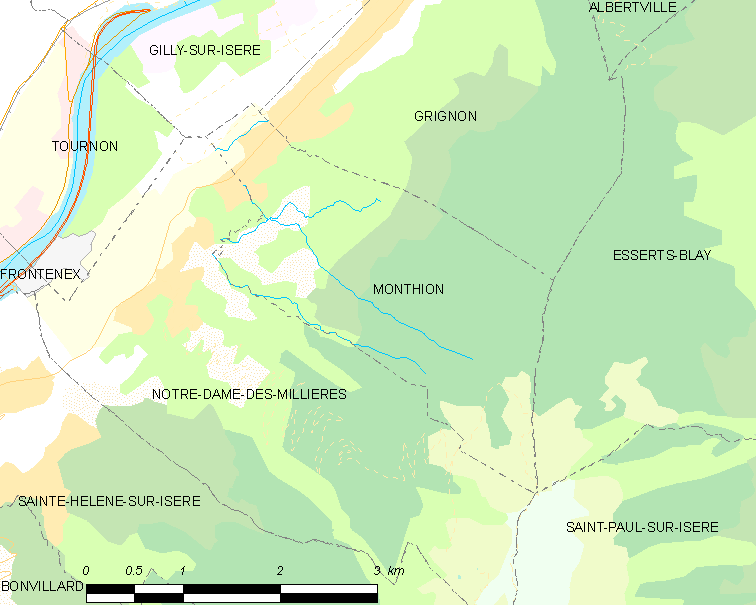 Map of French municipality